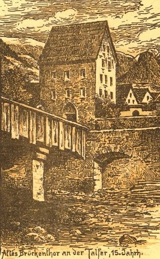 Detail from a Bozen-Bolzano's New year card showing the former civic gate tower at the Talfer-bridge